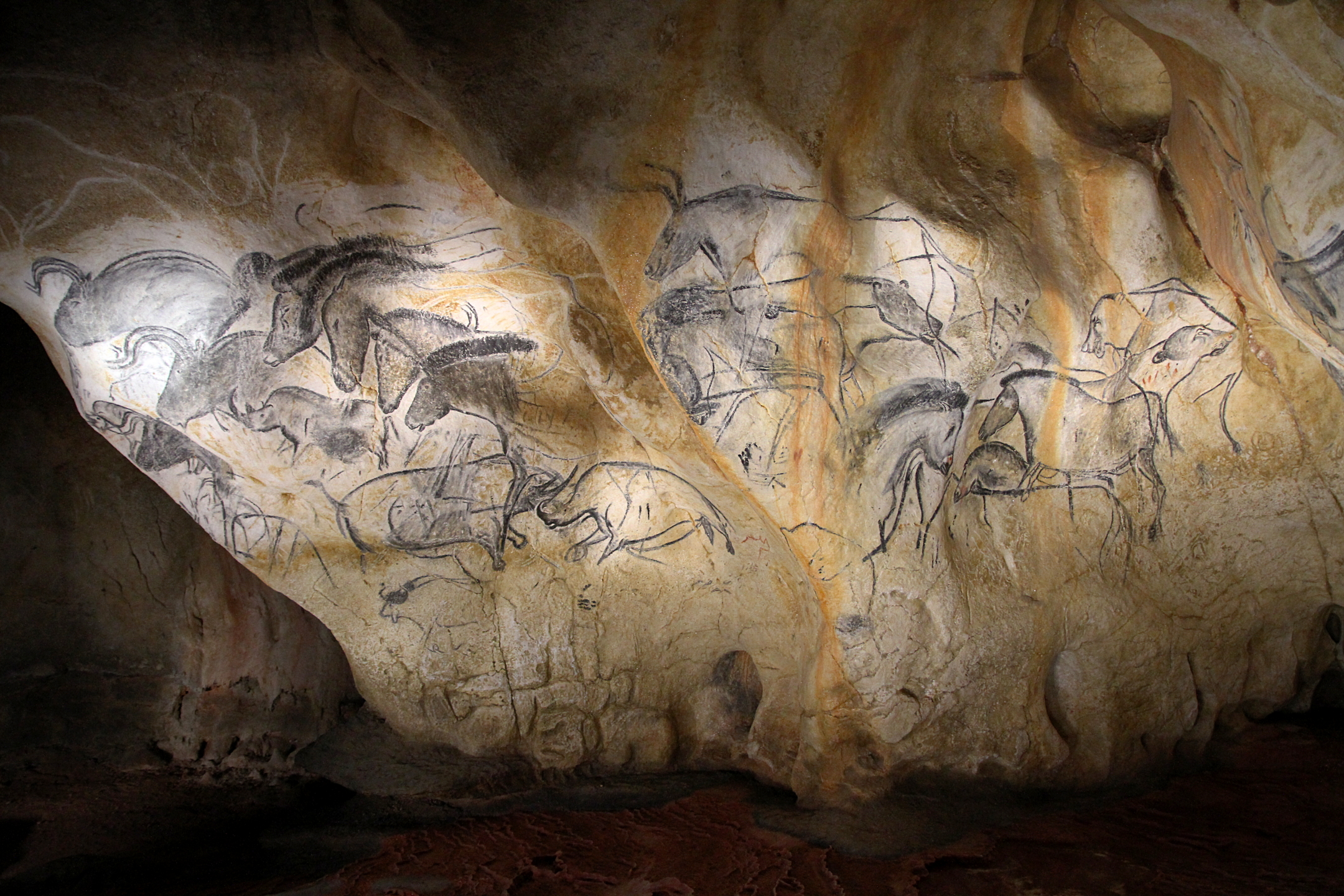 Horse Panel (overview). Water flow traces on the ground. Pont d'Arc cave (copy of the Chauvet Cave).